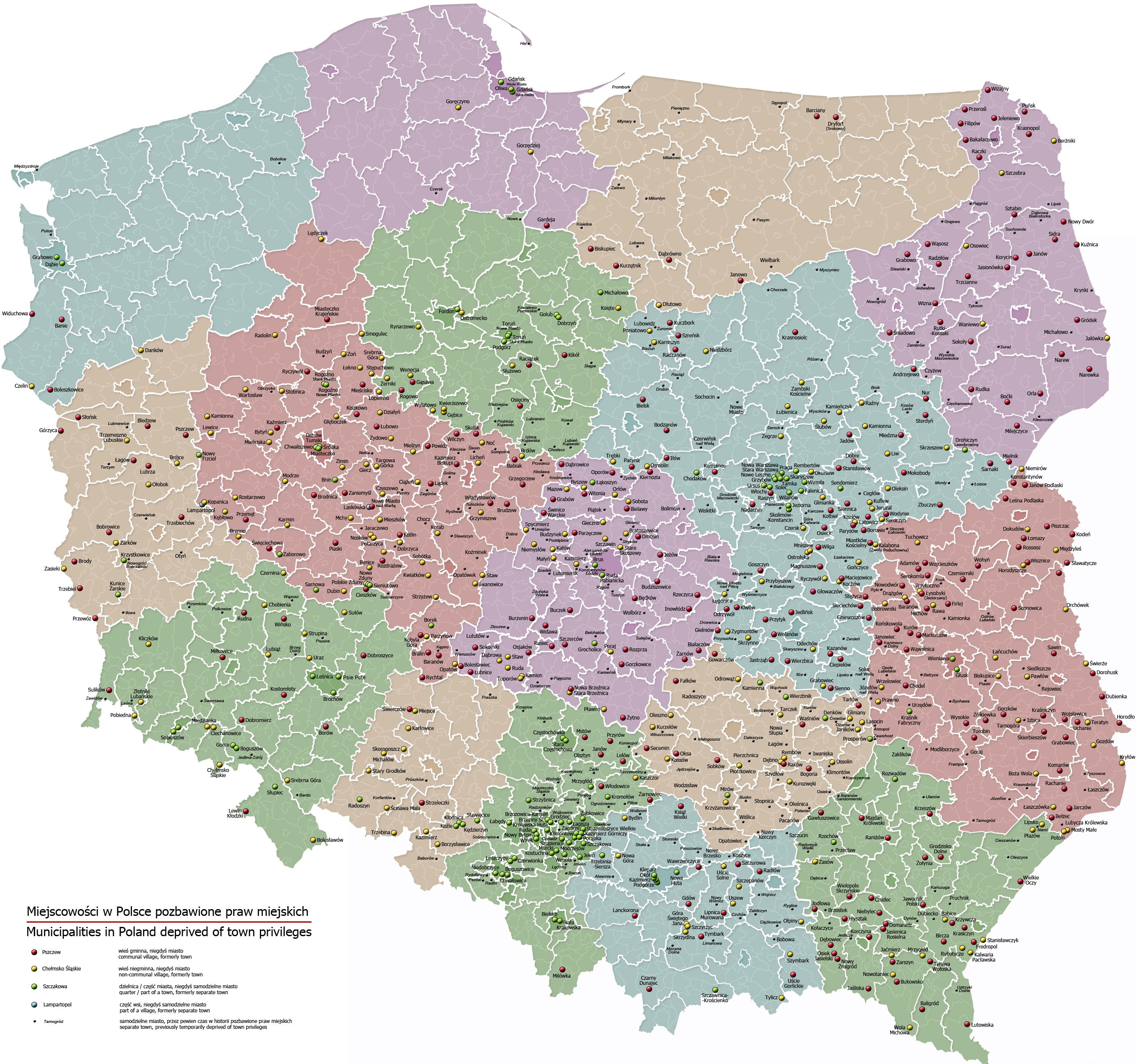 Municipalities in Poland deprived of town privileges. This could have happened to small towns, where actualy most of dwellers where peasants. After January Uprising, Russian government deprived many towns of their rights, as a punishment. Some towns were incorporated into other cities. It could have happened that after WWII, some towns, that had for example 10,000 dwellers (before war), lost some 80% of them, and became too small, thus losing their town functions. Changing town into village was decided very rare after 1940s, and last happened in 1973. Most of these changes happened in 19th century, and geographical distribution shows that most towns lost their privileges in part of Poland that was within the borders of the Russian Empire.